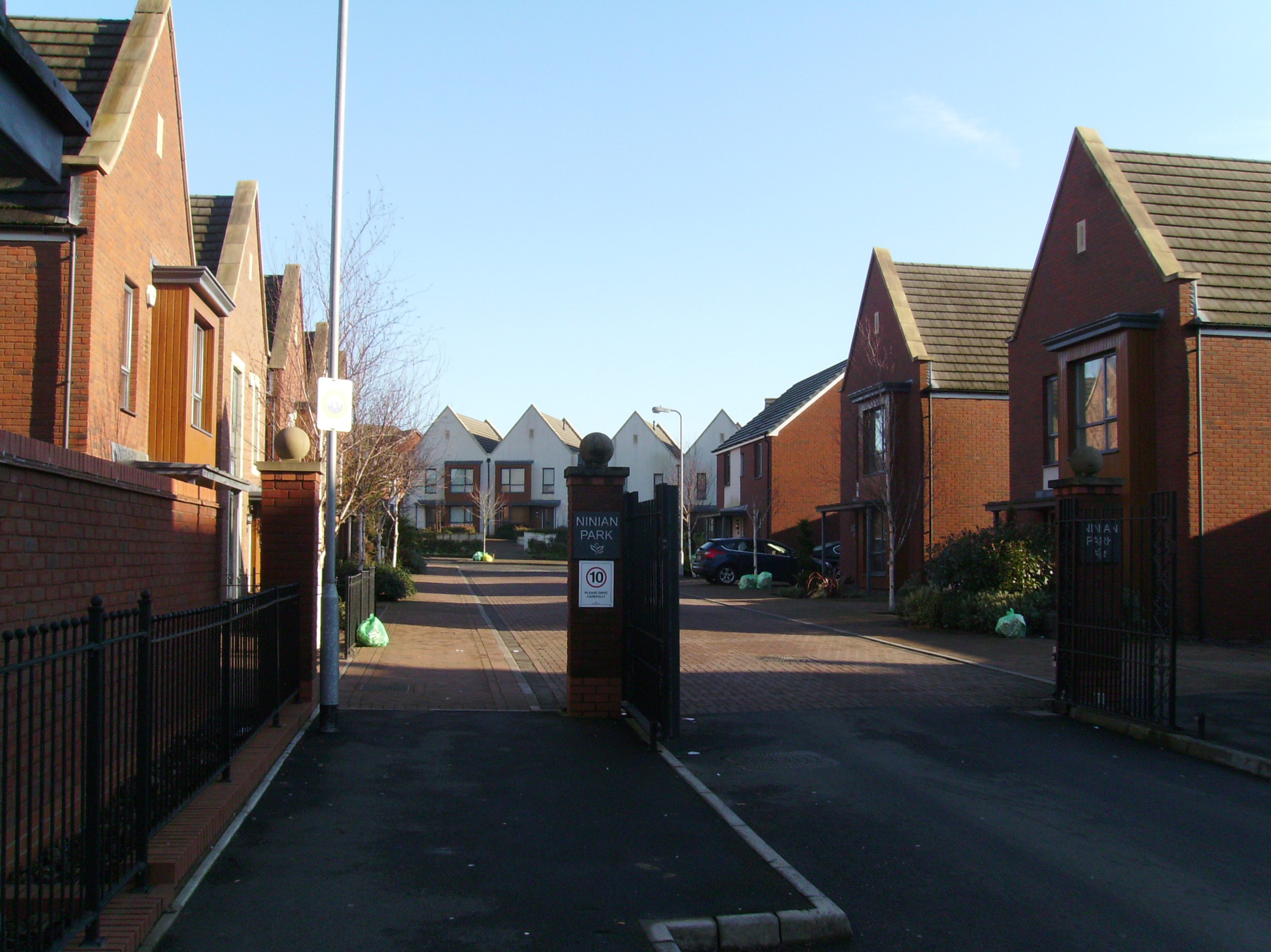 Ninian Park, Cardiff, Wales